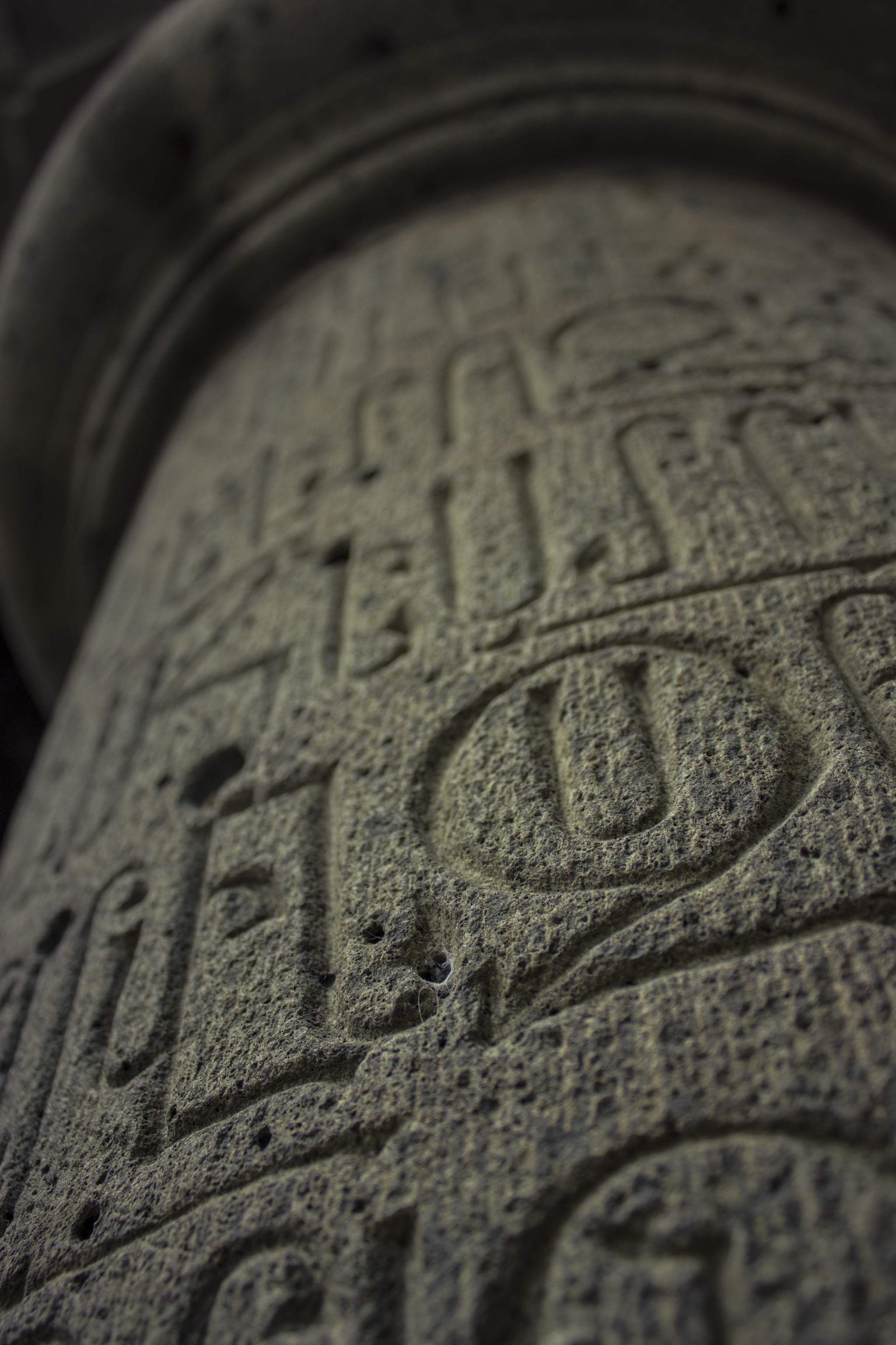 A pillar inside Sanahin Monastery (built in 10-13th centuries) decorated with an inscription in Armenian alphabet.